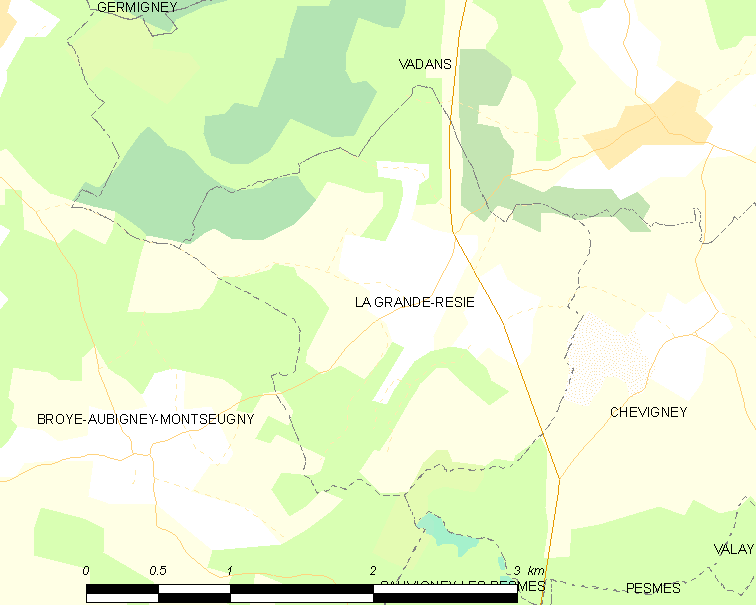 Map of French municipality